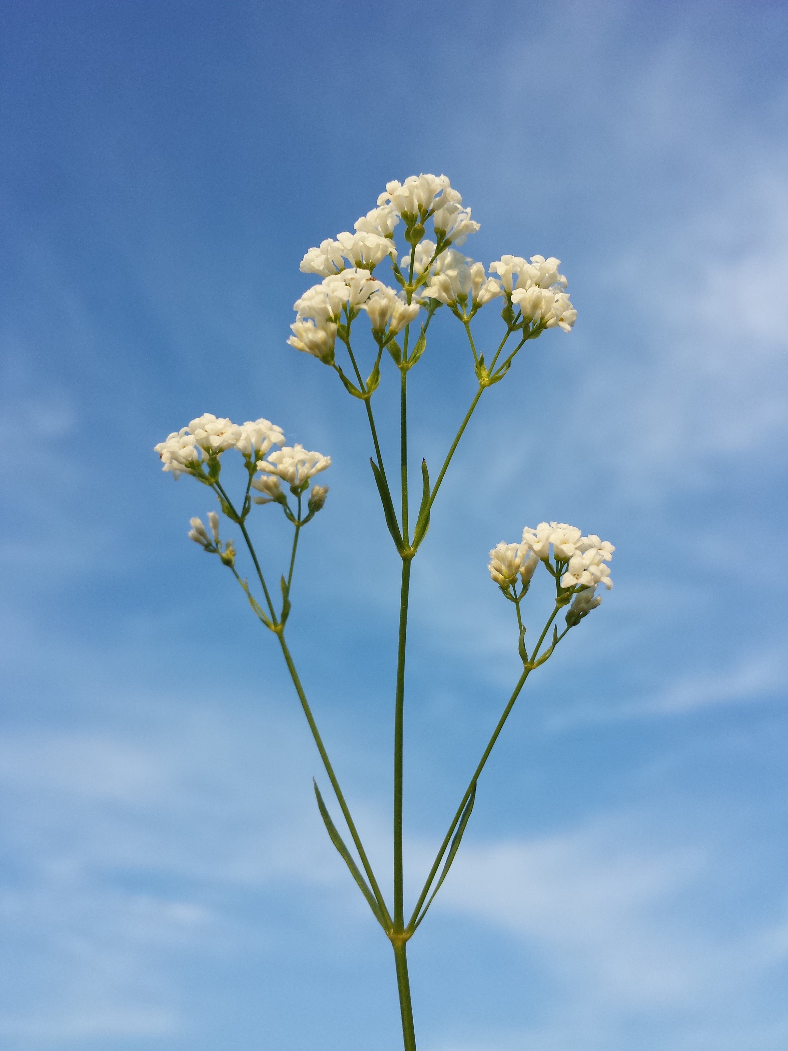 Inflorescence Taxonym: Asperula tinctoria ss Fischer et al. EfÖLS 2008 ISBN 978-3-85474-187-9 Location: Steinberg near Niederhollabrunn, district Korneuburg, Lower Austria - ca. 375 m a.s.l. Habitat: semi-dry grassland